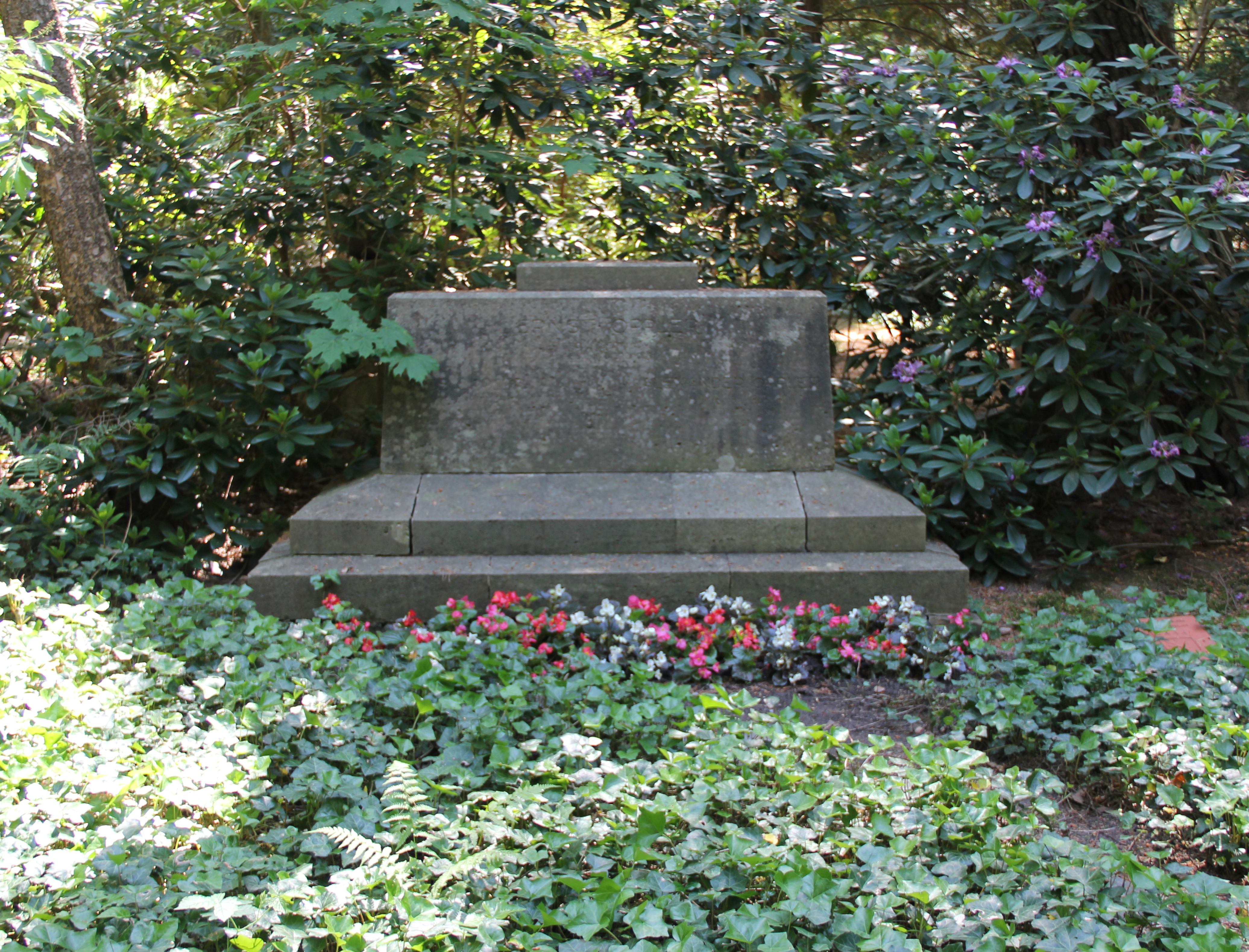 "Ehrengrab" (grave of honor), Ernst Oppler, Thuner Platz 2-4, Berlin-Lichterfelde, Germany Koordinate:52°25′24″N 13°17′45″E / 52.42333°N 13.29583°E